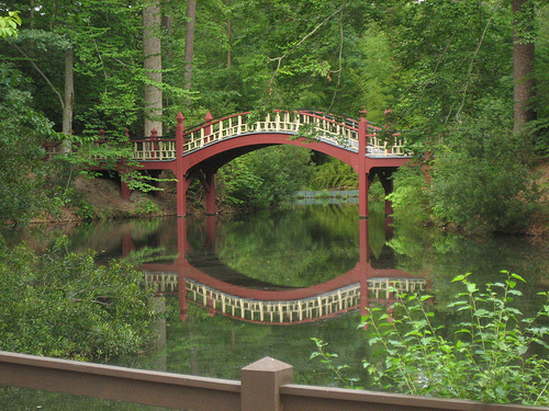 Taken by myself during 2001